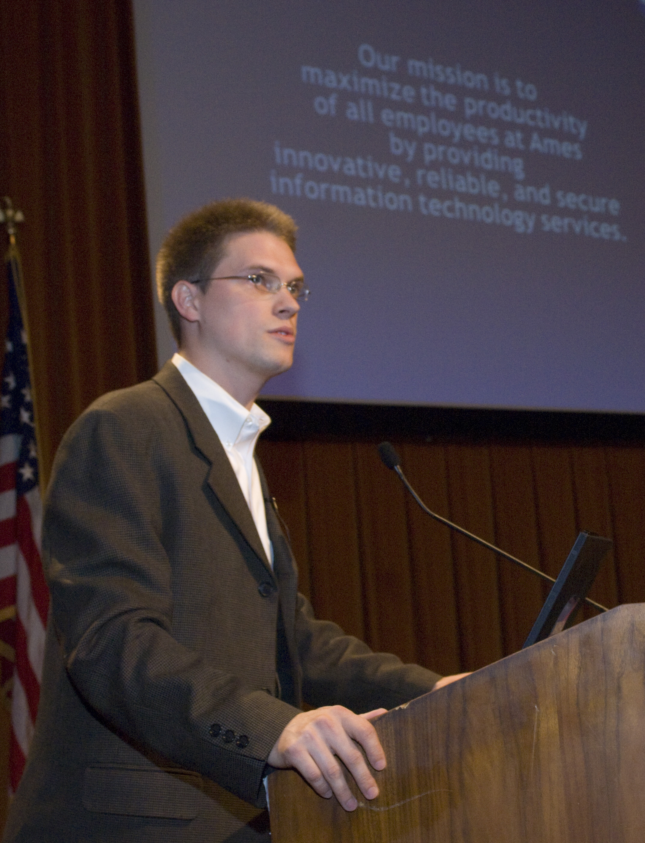 Chris C. Kemp, NASA Chief Technology Officer for IT